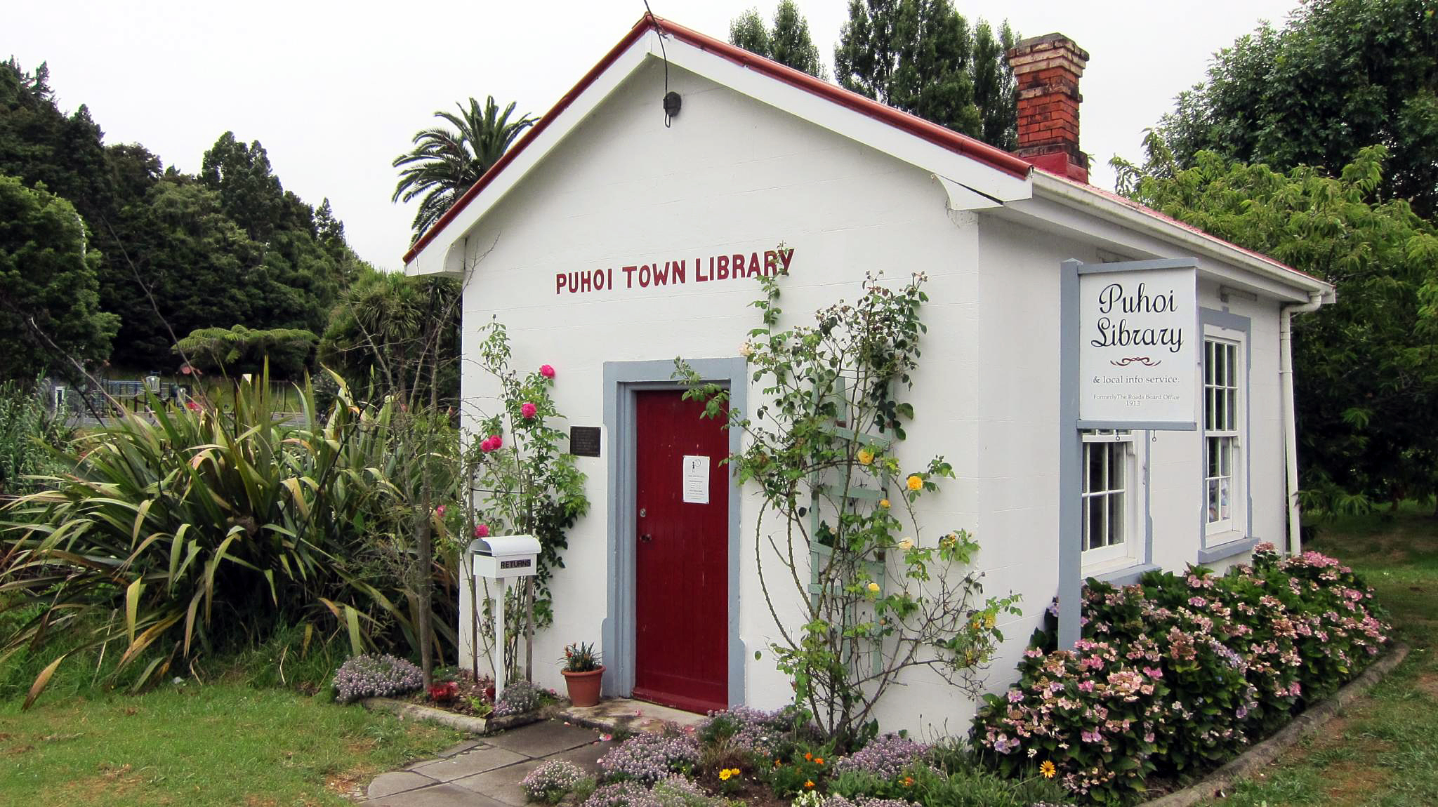 Puhoi Town Library, Puhoi, Auckland Council, New Zealand. Formerly, the Road Board Office, build 1913